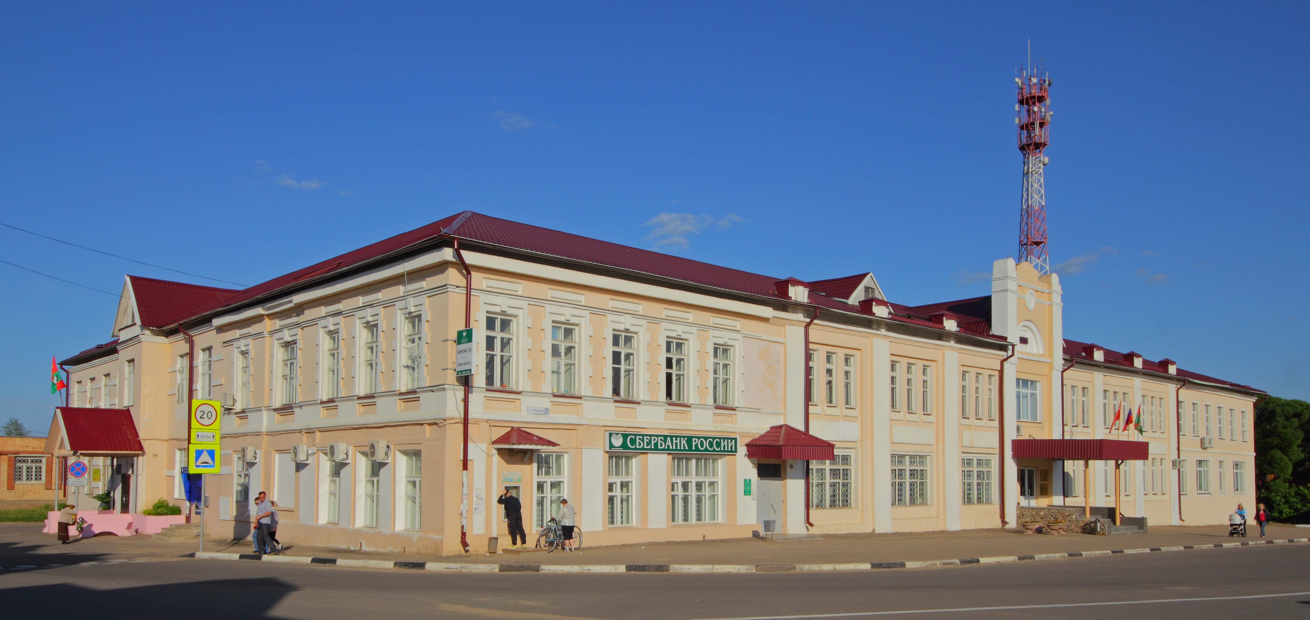 Taldom, Moscow Oblast, Russia. Karla Marksa Square, house 12.